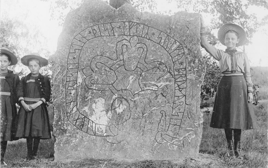 Three girls beside a rune stone (Ög 46) in Herrstaberg. The inscription says: "Vibern raised this stone in memory of Solva, his brother".